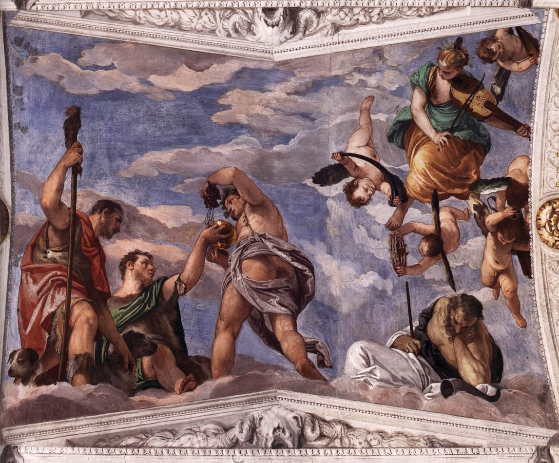 Bacchus gives the grapes to the shepherds, pressing the Juice into a bowl